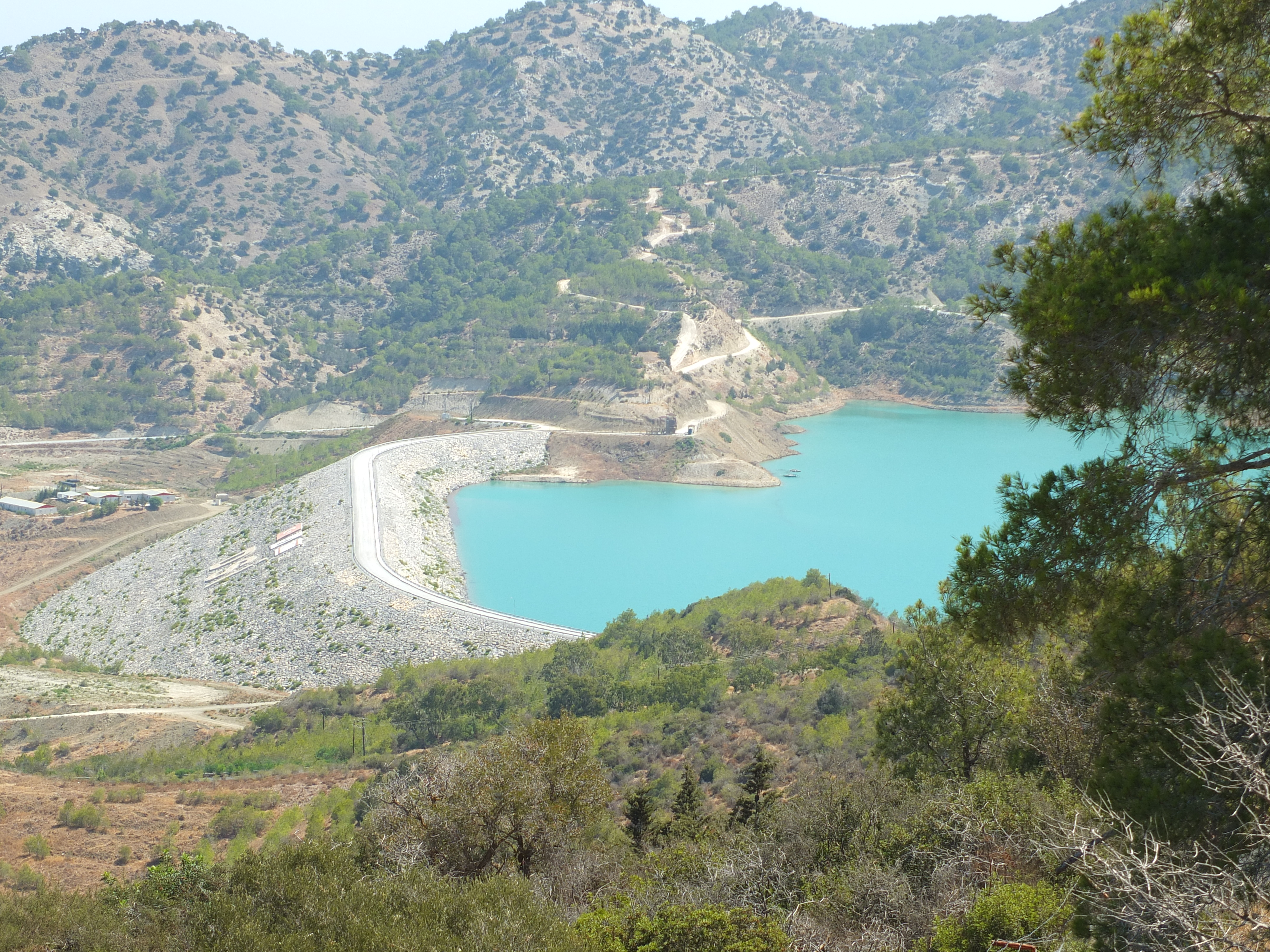 Geçitköy Dam and reservoir close to the city of Kyrenia (Girne), a part of the Northern Cyprus Water Supply Project.